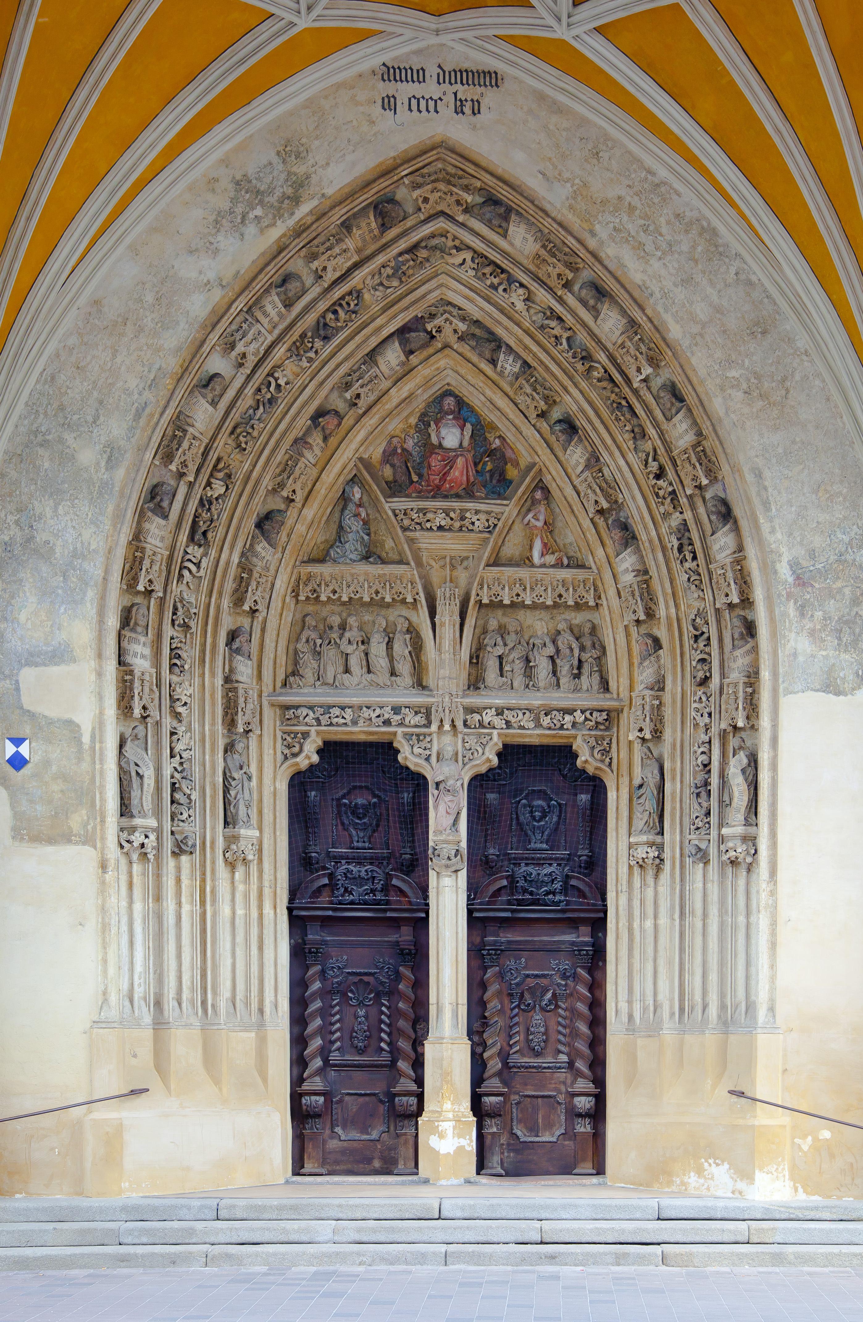 Church of the Holy Spirit, Landshut, Germany